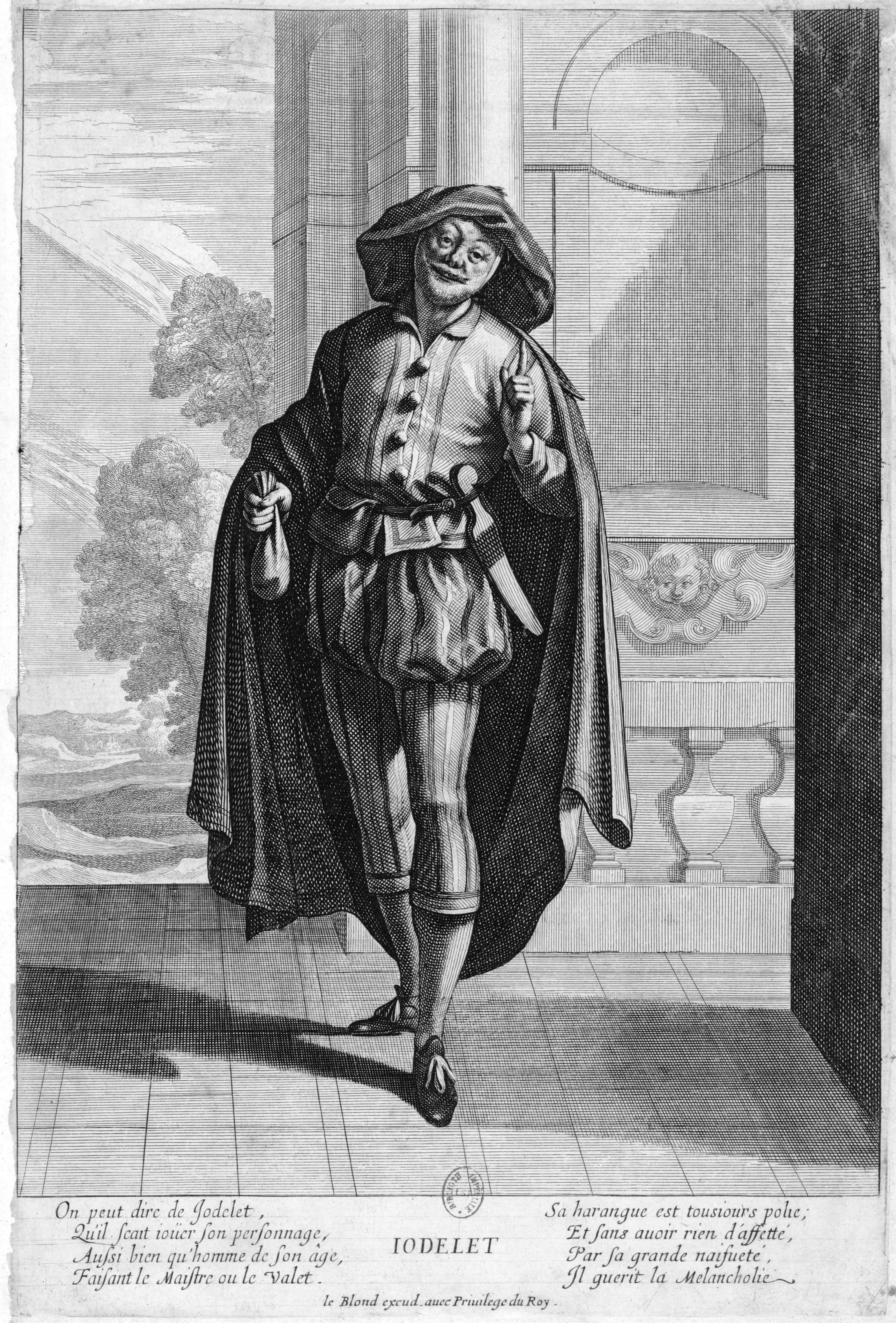 Jodelet (c. 1590 – 1650), French comic actor